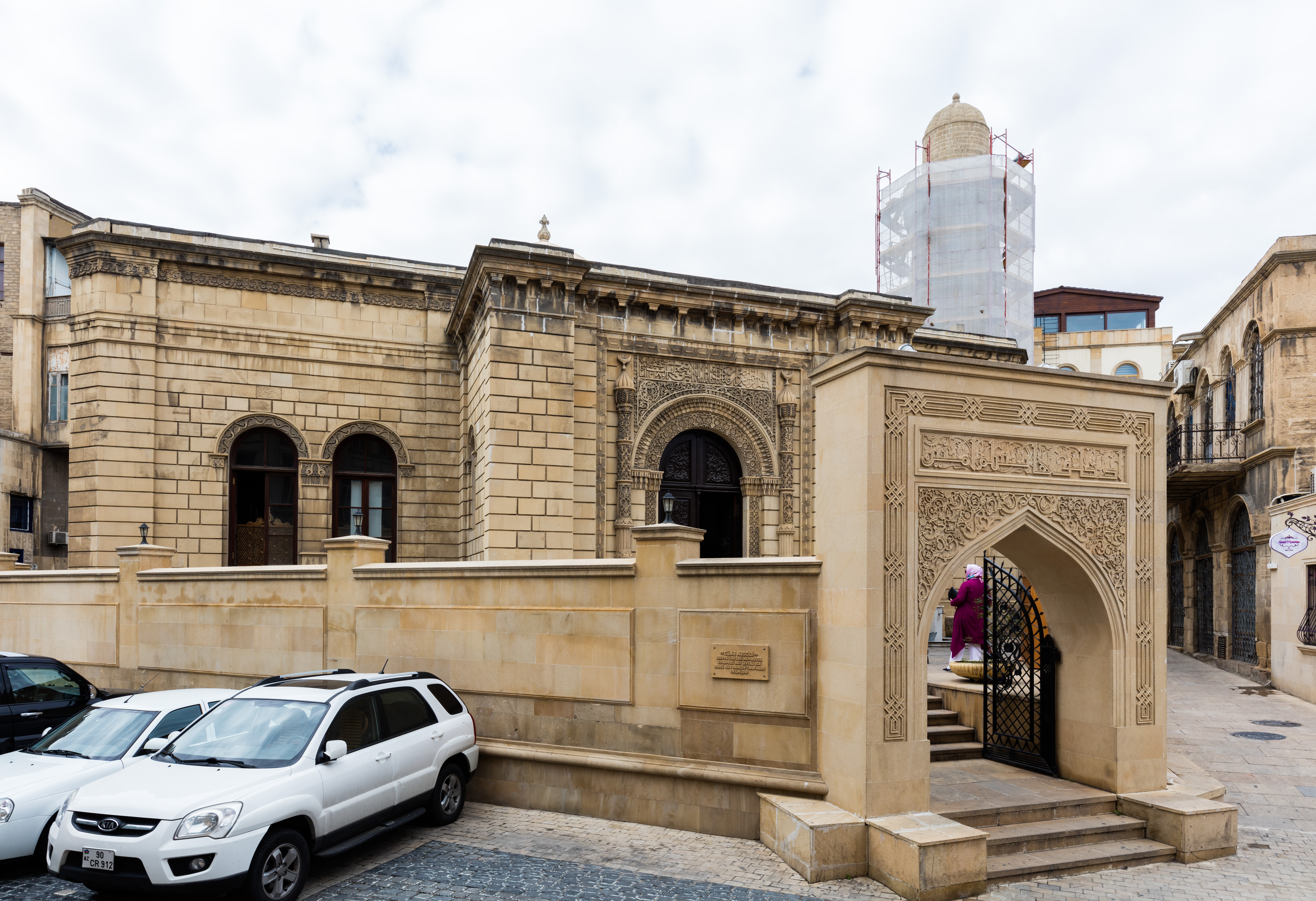 Juma Mosque, Baku, Azerbaijan